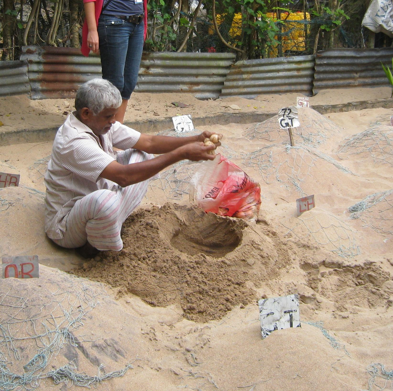 Sea Turtles Conservation project in Bentota, Sri Lanka. New turtles eggs put to nests